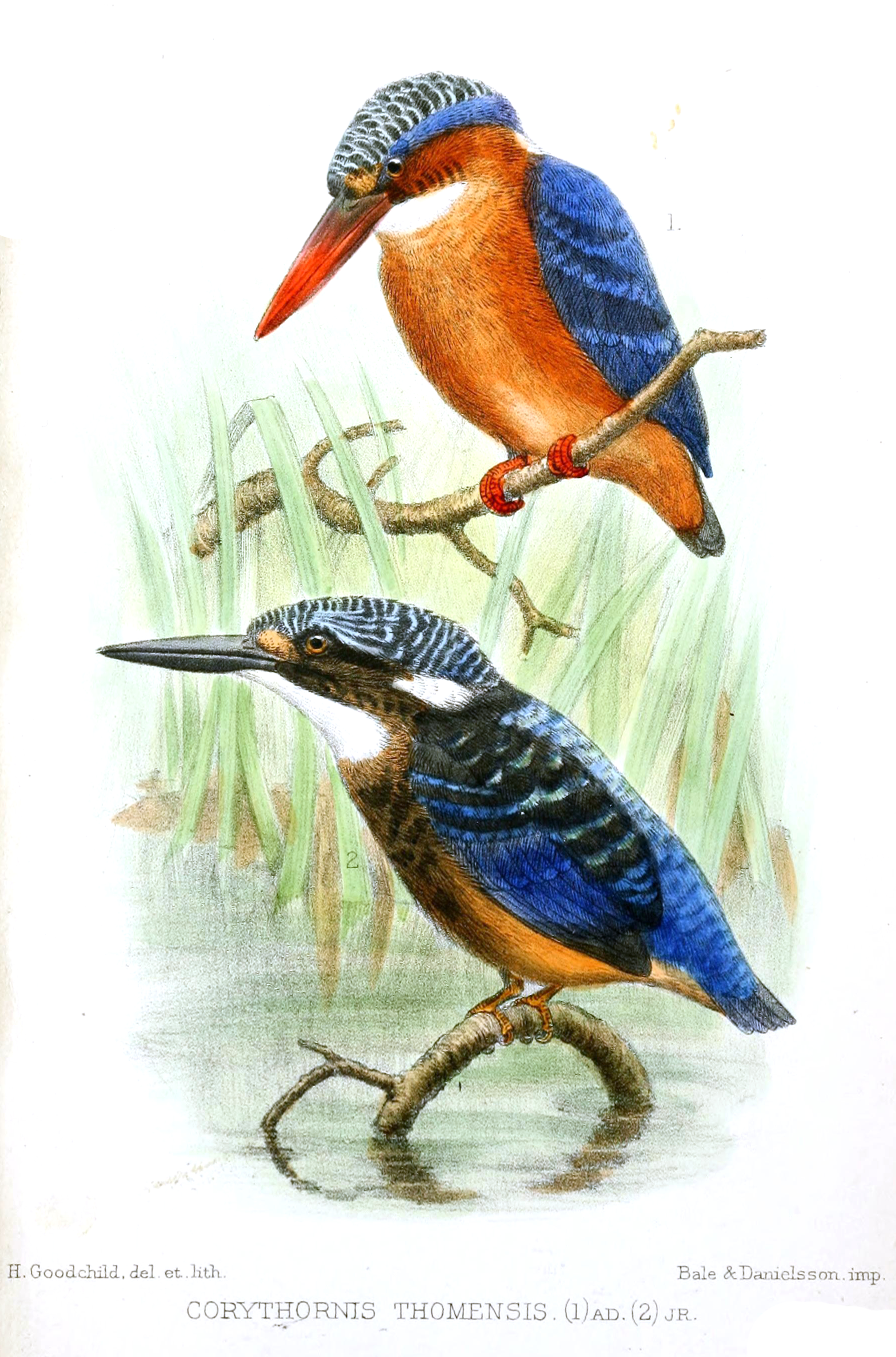 Corythornis thomensis = Alcedo thomensis = Alcedo cristata thomensis = Corythornis cristatus thomensis